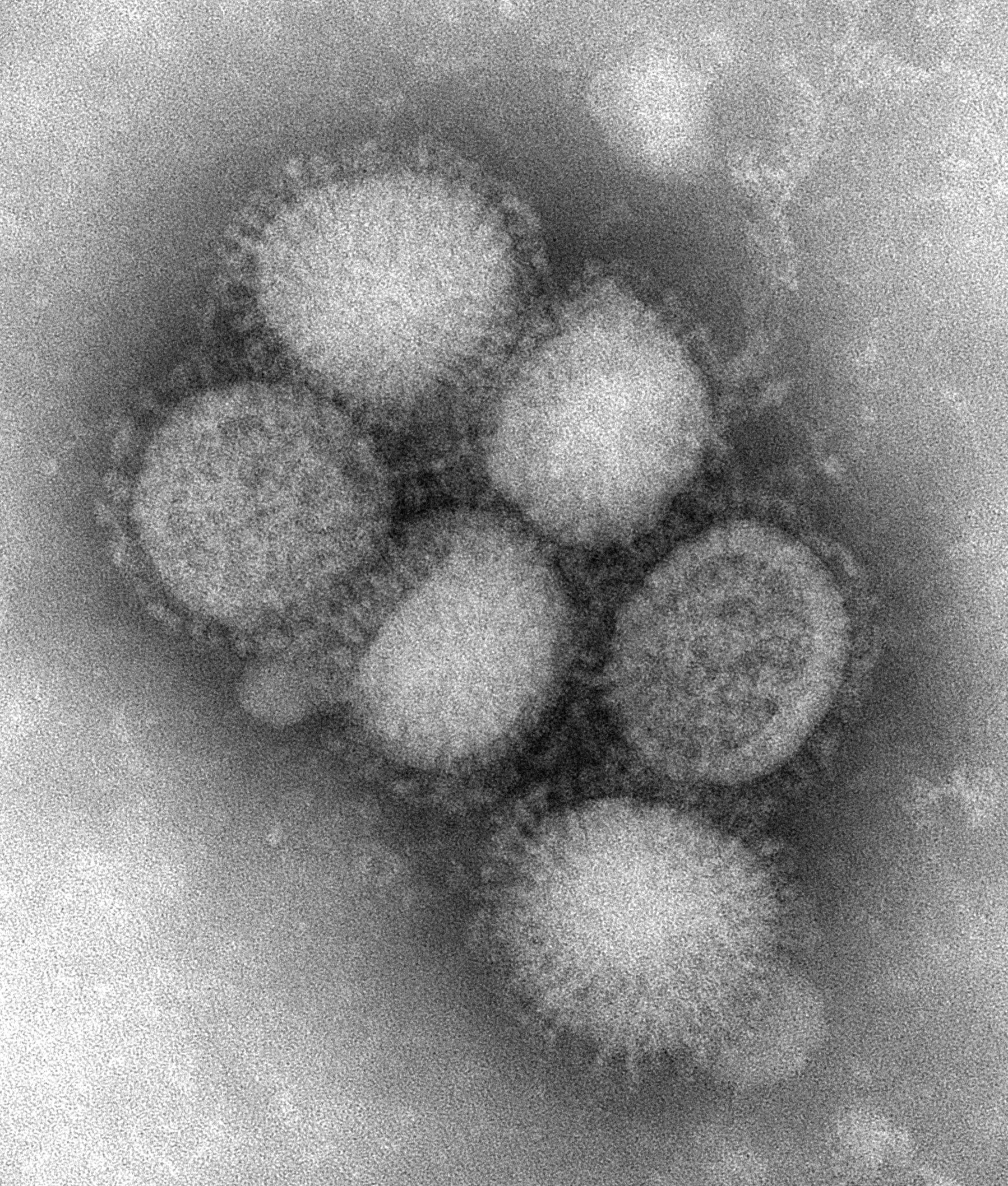 This negative stained transmission electron micrograph (TEM) depicted some of the ultrastructural morphology of the A/CA/4/09 swine flu virus.